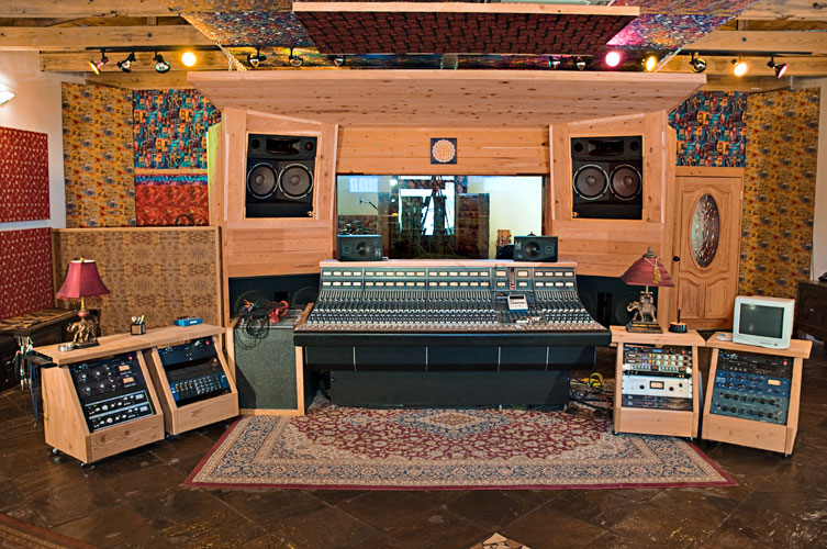 The Adobe Studio at Sonic Ranch. console: Vintage 8088 Neve 40ch, class A 31102 mic pre/eq Neve flying fader automation recorder: ProTools HD 3 system, 32in/40out monitor: George Augspurger ENT, dual JBL 18” subs tri-amped with Crown amplifiers near field: ADAM S2A Adams, KRKs, Genelecs, Dynaudio, NS-10s, Mastering Lab 10s, etc.